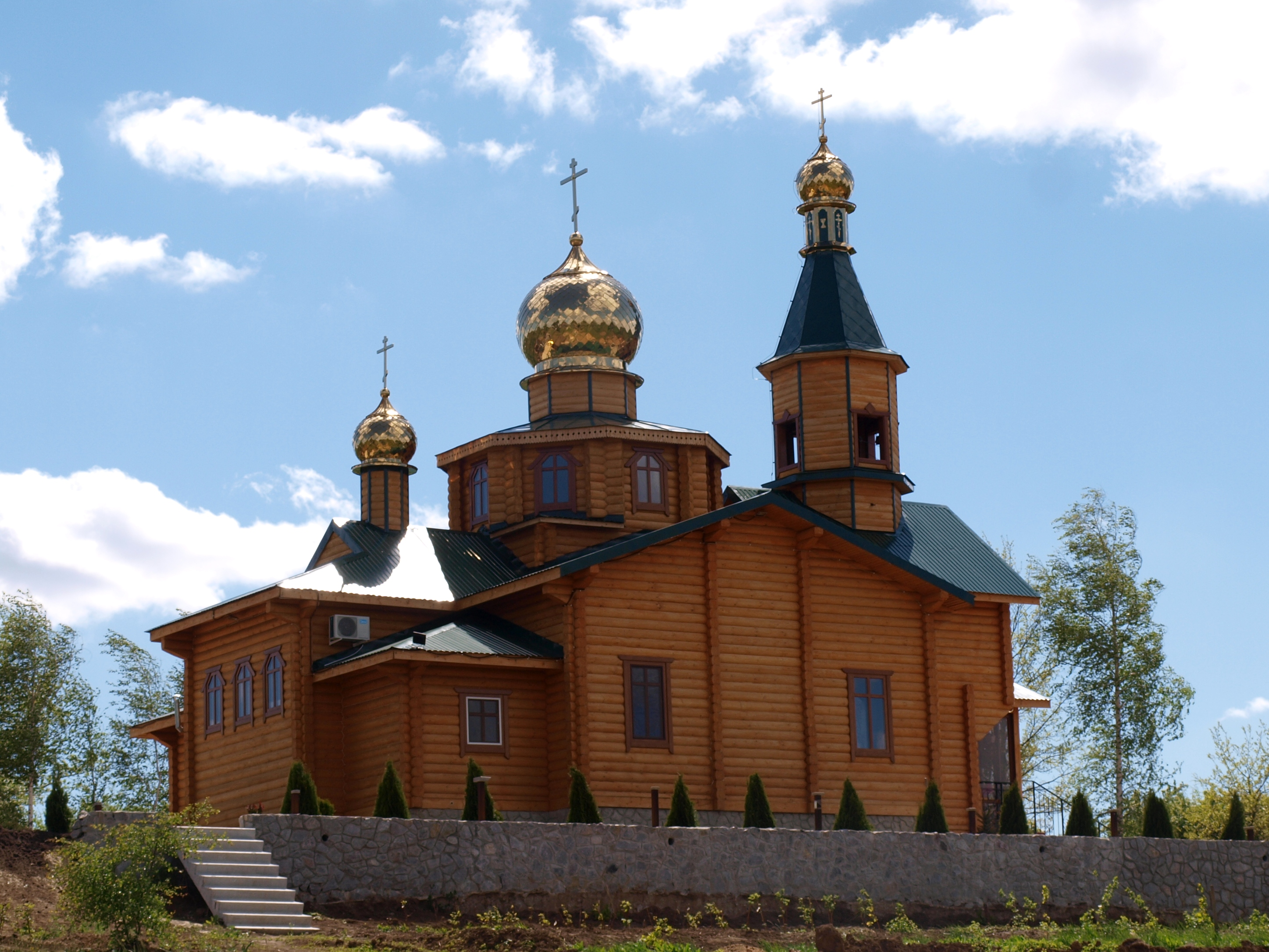 Wooden church in Horbanivka